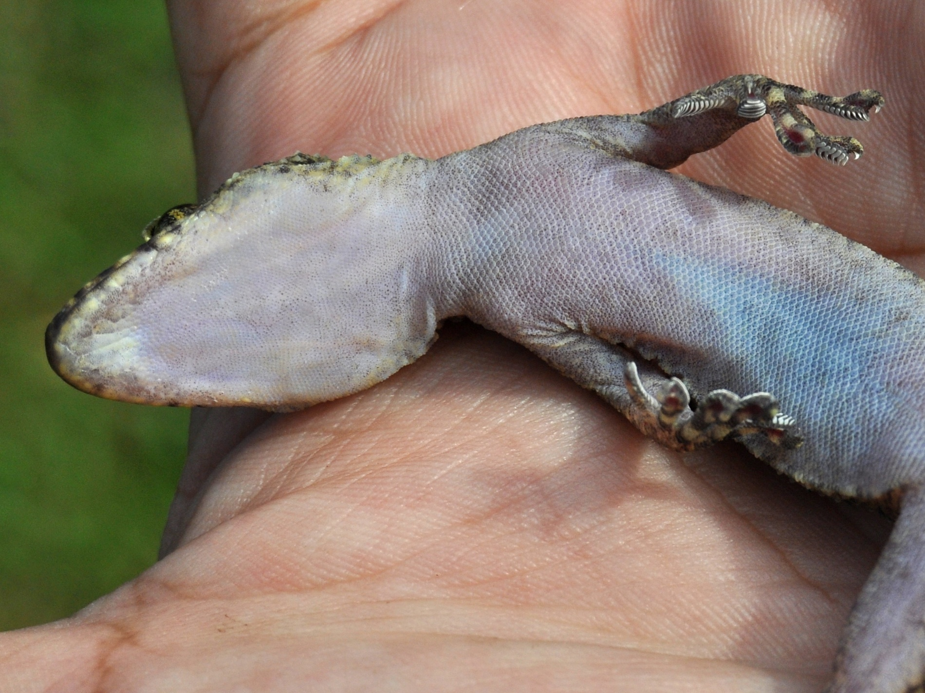 Gekko monarchus, Spotted House Gecko; front part of ventral region. From oil-palm plantation in Upper Seruyan, Central Kalimantan, Indonesia